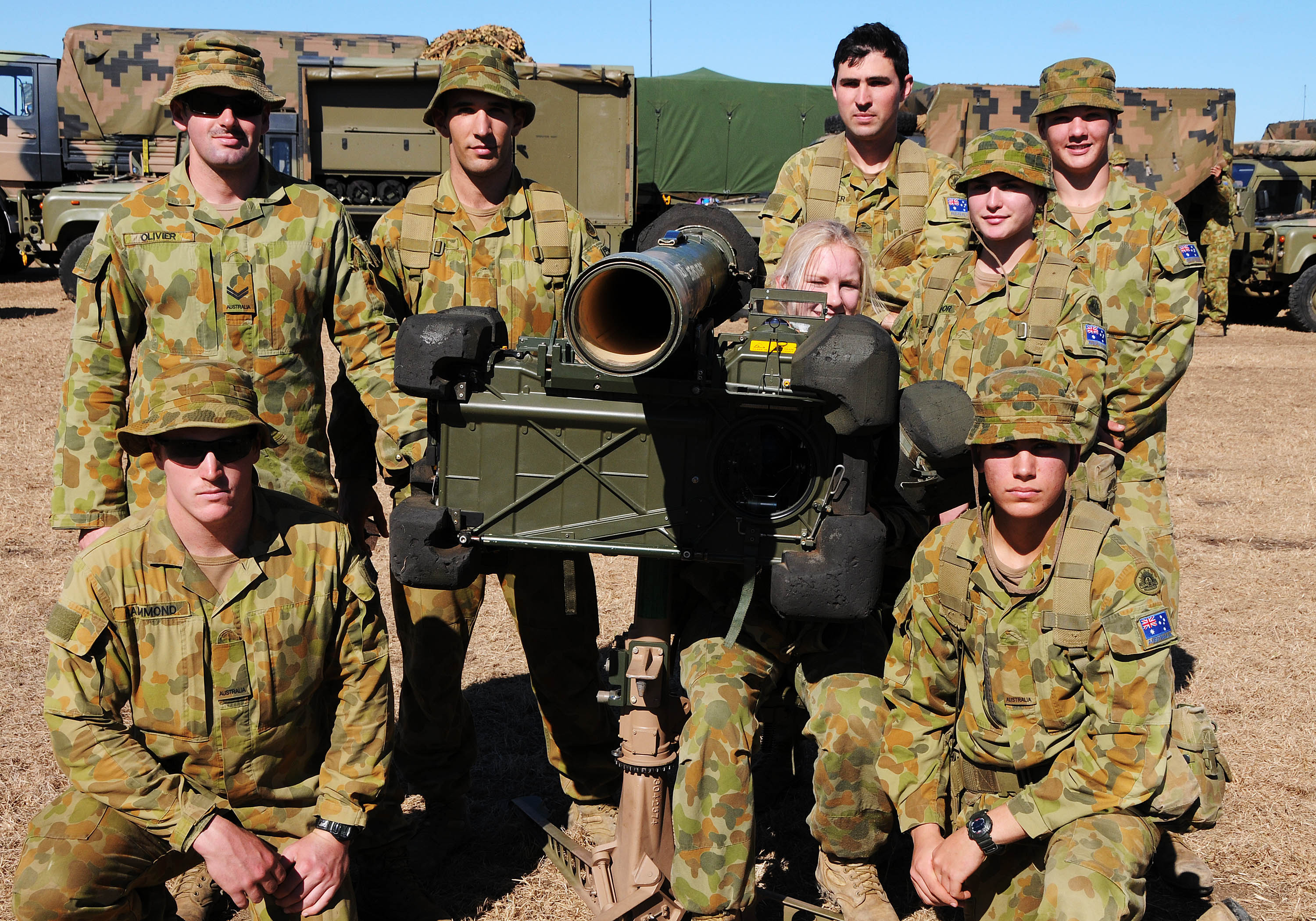 ROCKHAMPTON, Queensland, Australia (July 17, 2011) Members of Australian Defence Force 16th Air Defence Regiment, based in Woodside, South Australia stand next to a RBS-70 Ground Based Air Defence System during Talisman Sabre 2011. TS11 is an exercise designed to train U.S. and Australian forces to plan and conduct Combined Task Force operations to improve combat readiness and interoperability on a variety of missions from conventional conflict to peacekeeping and humanitarian assistance efforts.